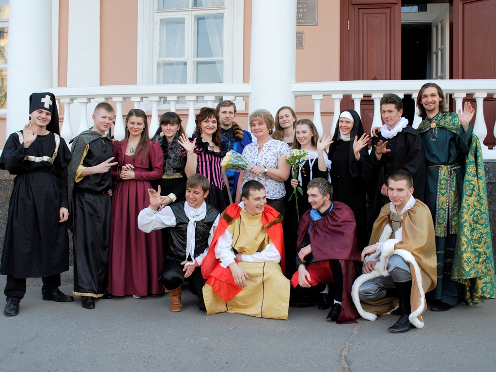 Fabula-2012